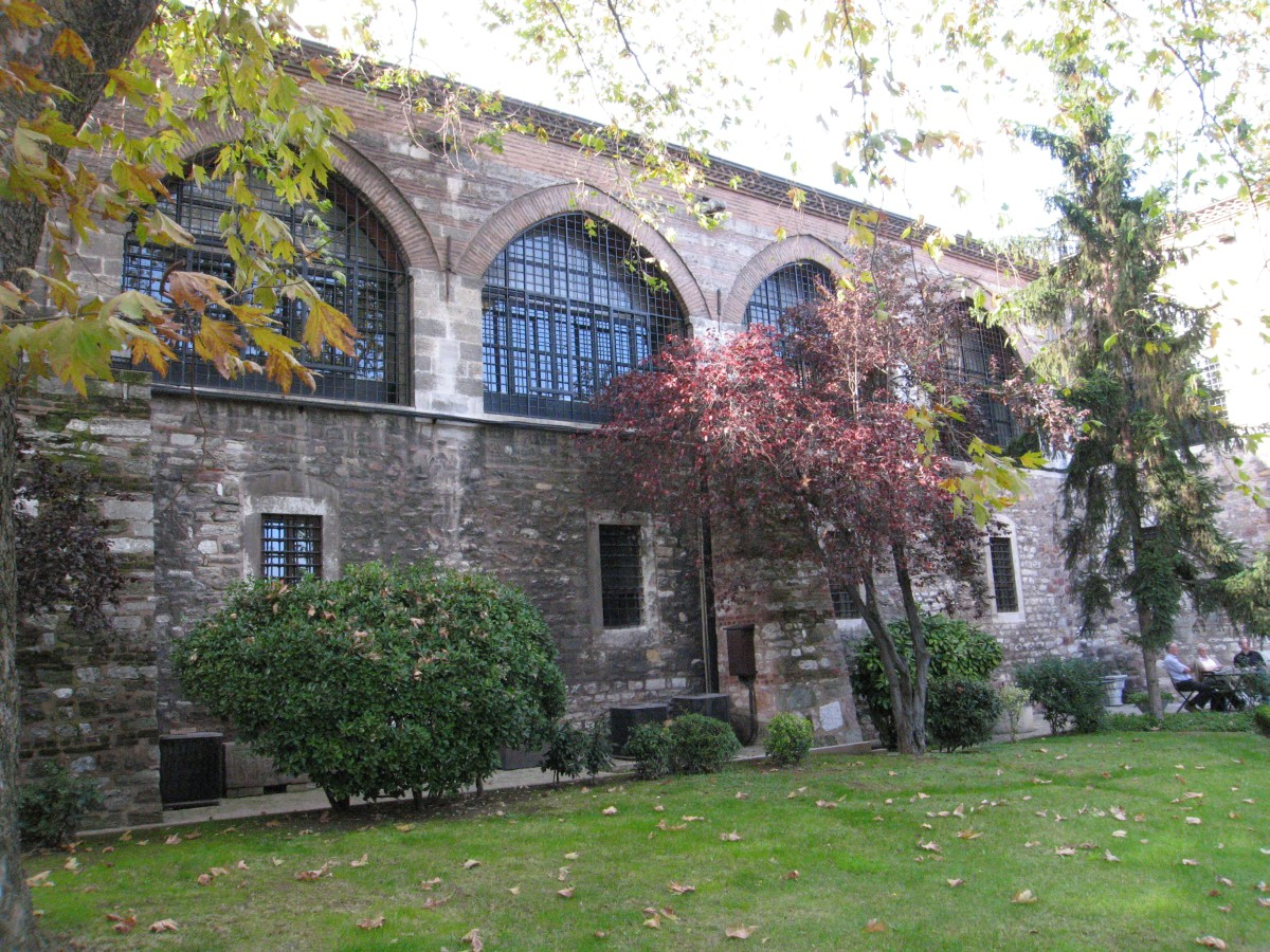 Inner courtyard of Turkish and Islamic Arts Museum, Istanbul, Turkey.